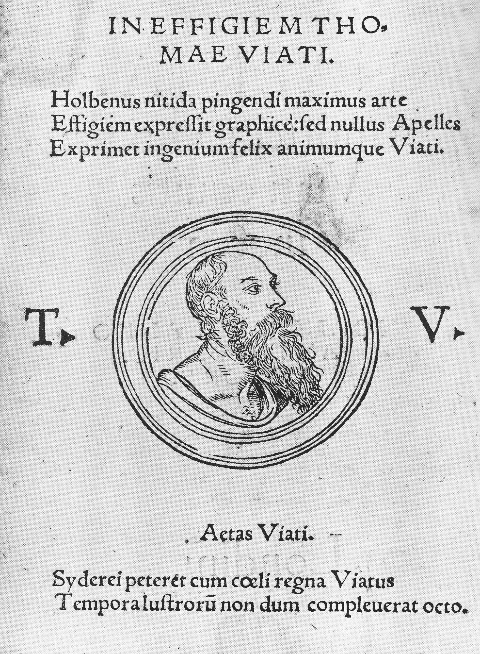 Profile of Sir Thomas Wyatt wearing an antique drape. Woodcut published in John Leland's Naenia in 1548. This woodcut was probably based on a lost Holbein drawing or painting of Wyatt from around 1540. Holbein had already drawn Wyatt in the mid 1530s wearing a hat. Here he is shown balding. Four copies of the lost work, by other hands, survive (see "Other versions" below for two). Sir Thomas Wyatt (1503?–42) was a diplomat and a gifted poet who introduced the Italian sonnet form to England. He was arrested after the fall of Anne Boleyn, whom he had admired in poetry, but he recovered to become ambassador to the Emperor Charles V before being arrested again in 1541. References Susan Foister, Holbein in England, London: Tate, 2006, ISBN 1854376454, p. 56. Roy Strong, Tudor and Jacobean Portraits, London: HMSO, 1969, p. 339.